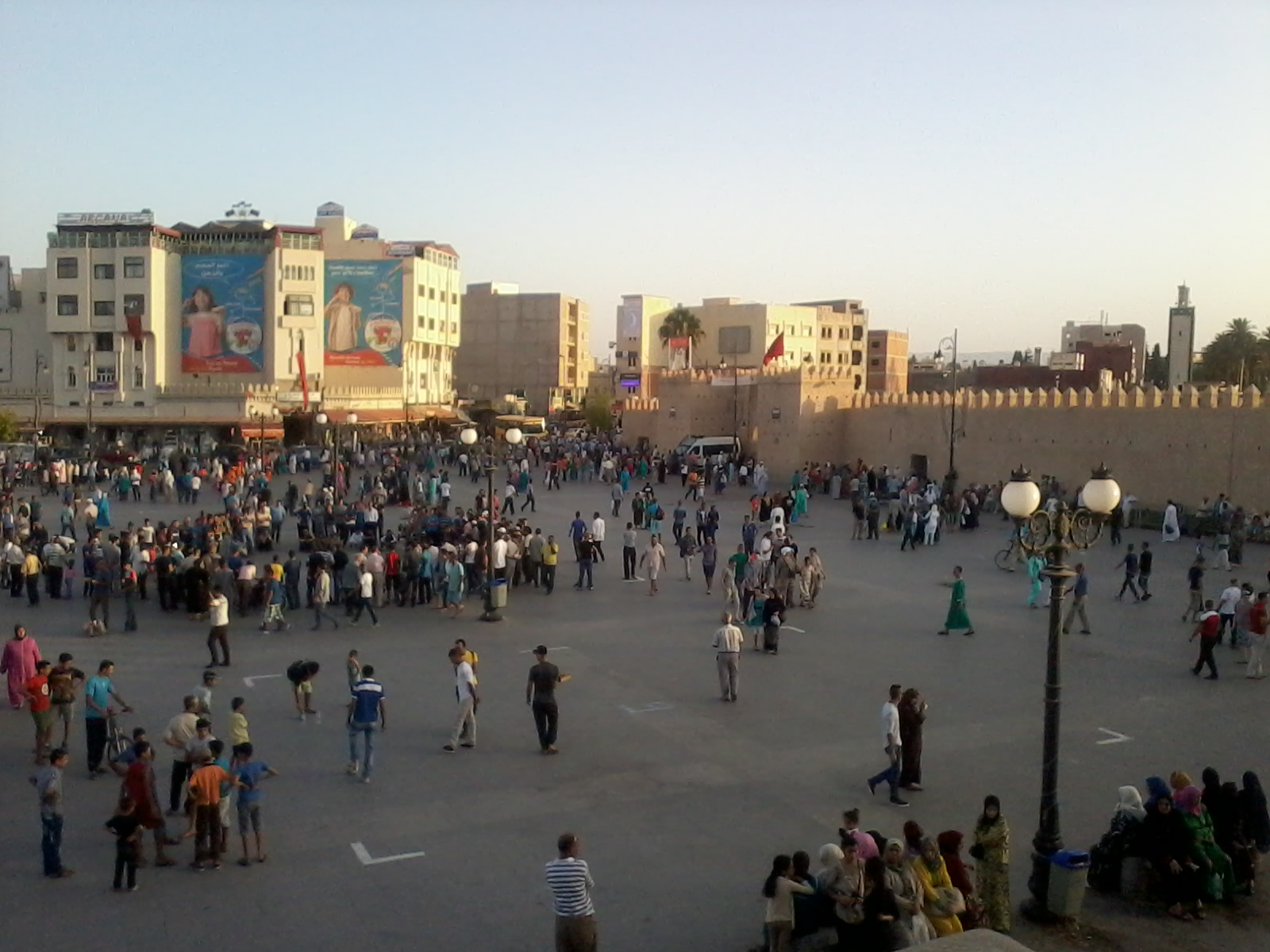 la place de bab sidi abd al wahab